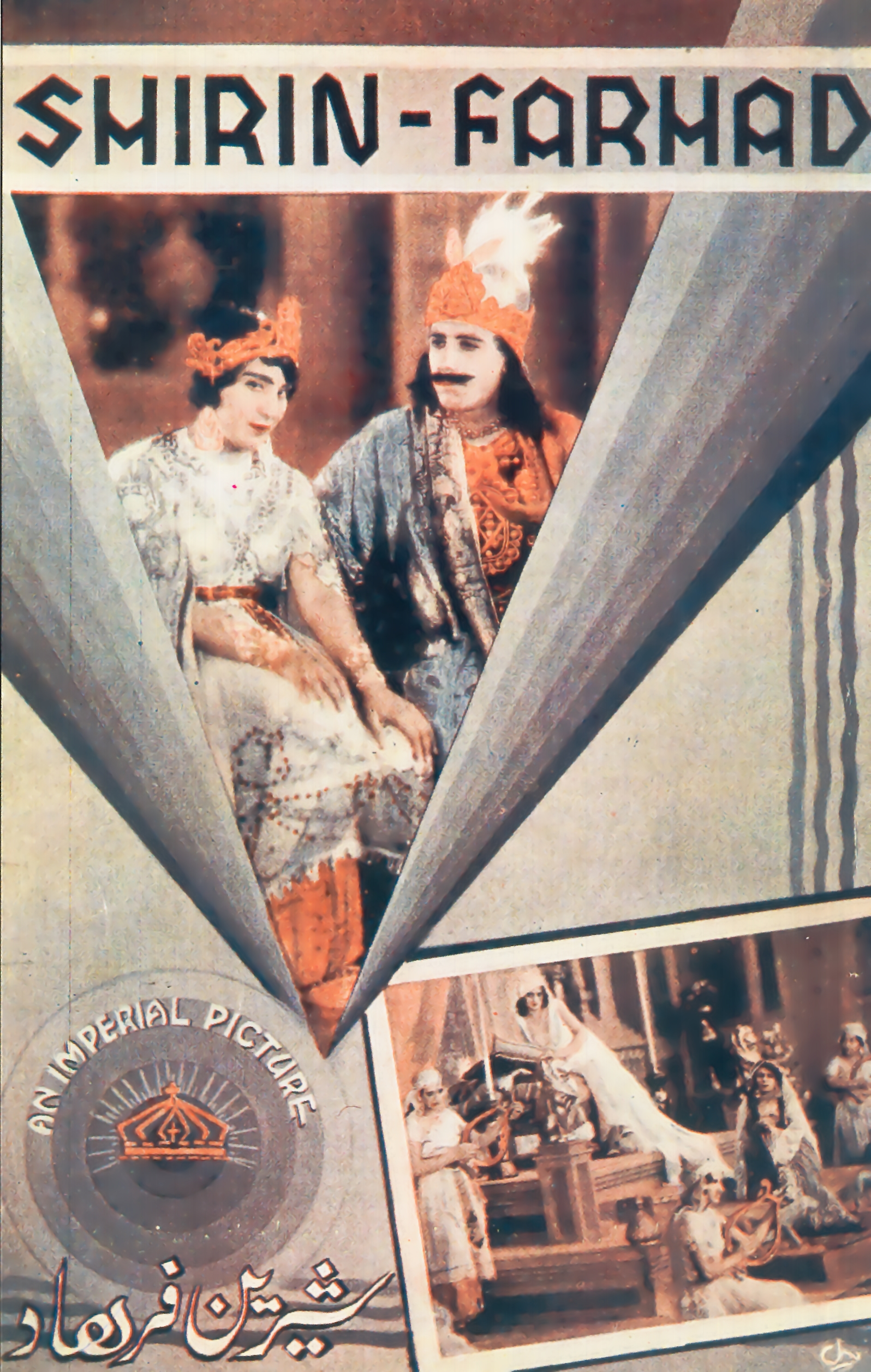 Poster of the film Shirin o Farhad, realized by Abdol Hossein Sepanta, Iran, 1935